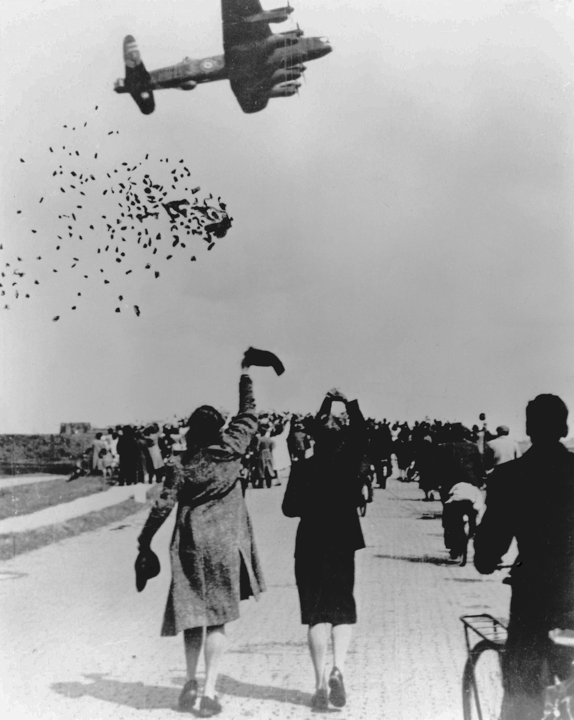 Een Lancaster toestel trekt weer op, nadat hij zijn lading boven Ypenburg heeft uitgeworpen. Het voedsel werd met wagens naar de meelfabriek bij de Hoornbrug getransporteerd. Van daaruit werd het over de Vliet verscheept naar een opslagcentrum aan de Laakhaven om gesorteerd en gedistribueerd te worden. 1945